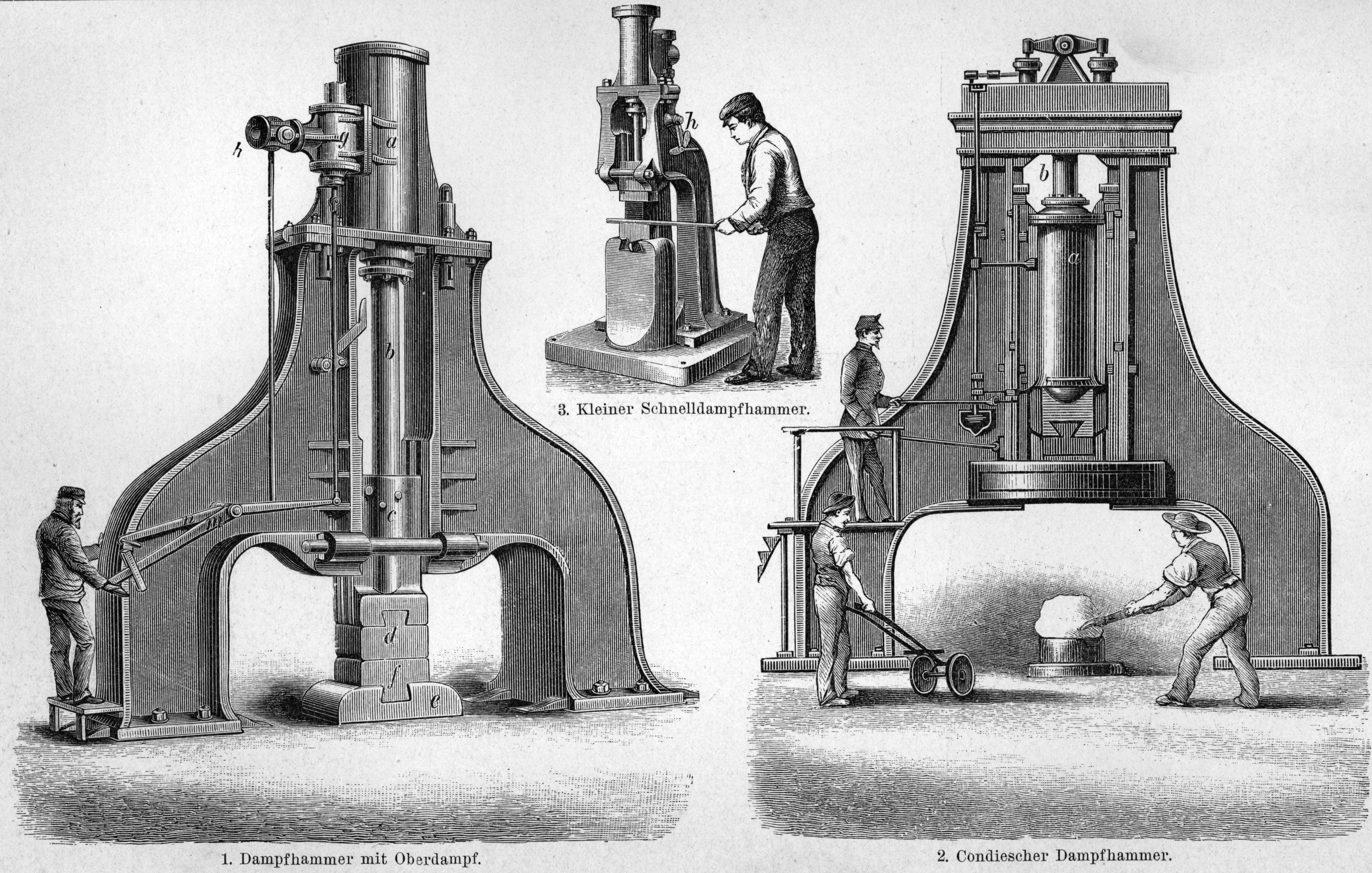 Steam engine technology